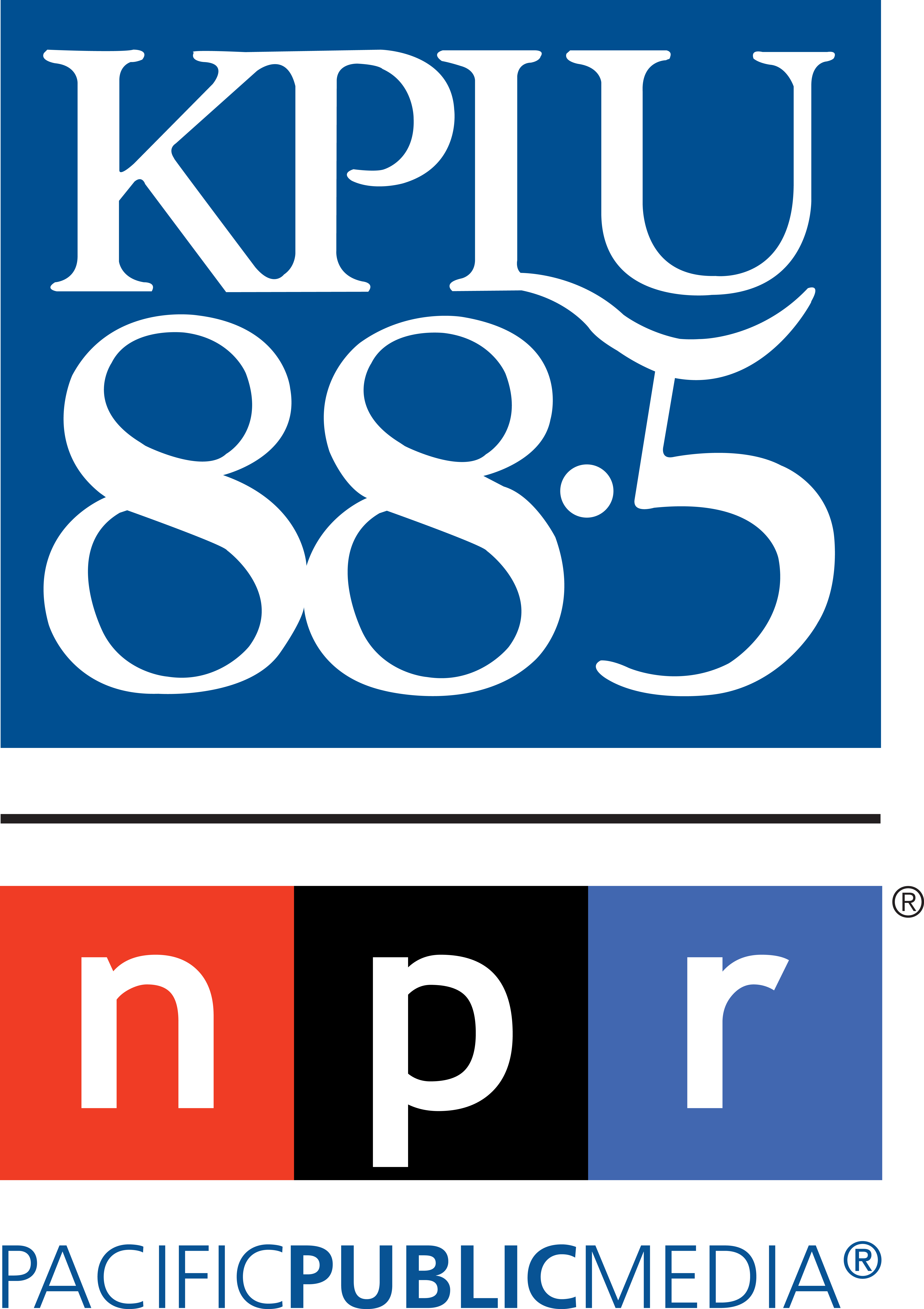 KPLU is a news & jazz format NPR affiliate, located in Tacoma/Seattle, Washington